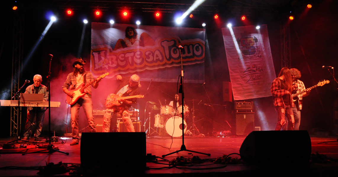 Vasko The Patch with his band featuring Razvigor Popov on the keyboards at "Flower for Gosho Fest" 2016, South park, Sofia.